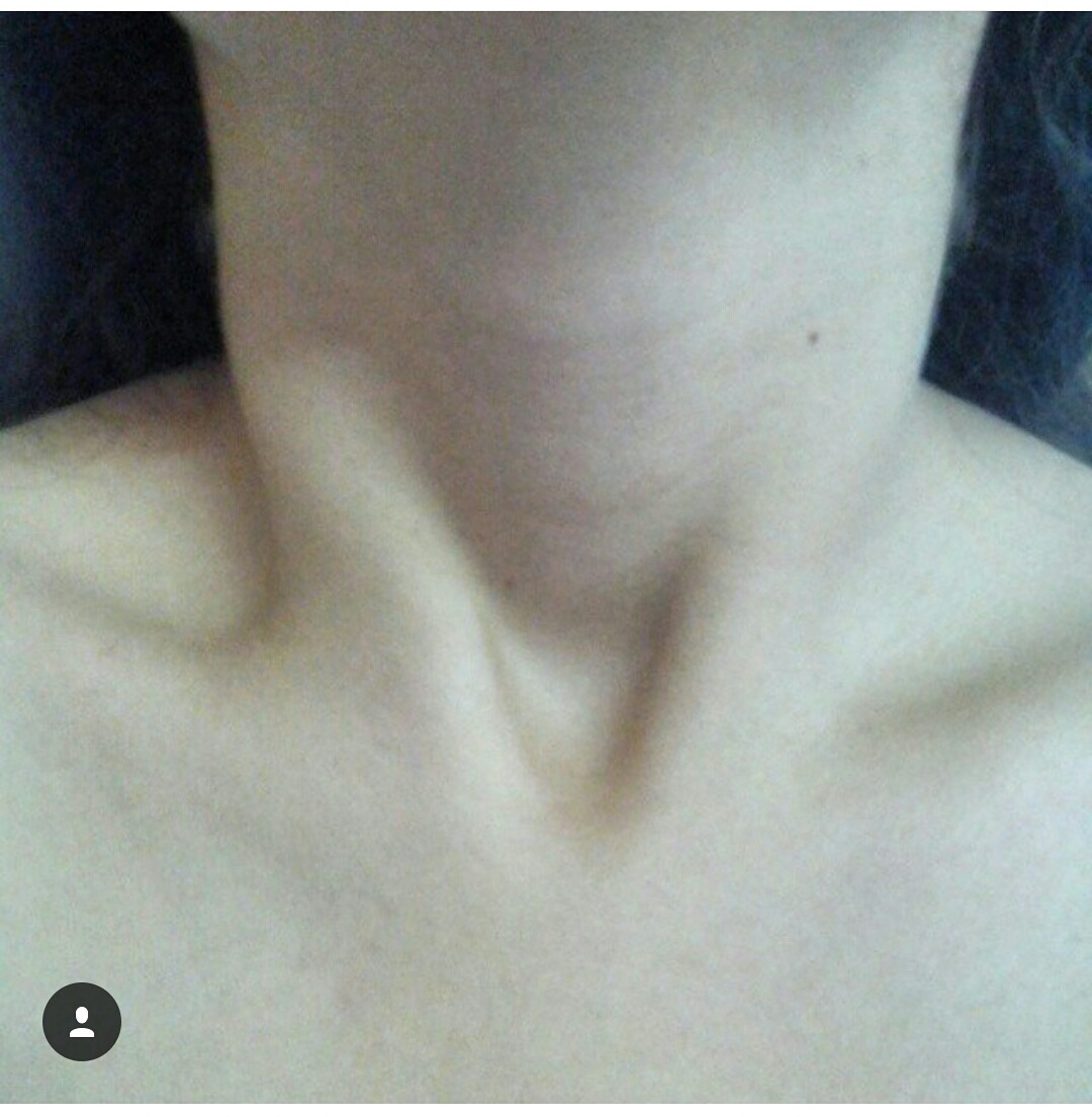 This picture is from a model, her name is VickyBarba, she showing her suprasternal notch